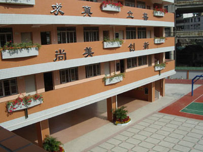 Motto signs on the walls of Block One of Yong Yao Bei (Wing Yiu Pak) Primary School in Canton, China 粵語: 廣州市永曜北小學1號樓牆上的校訓